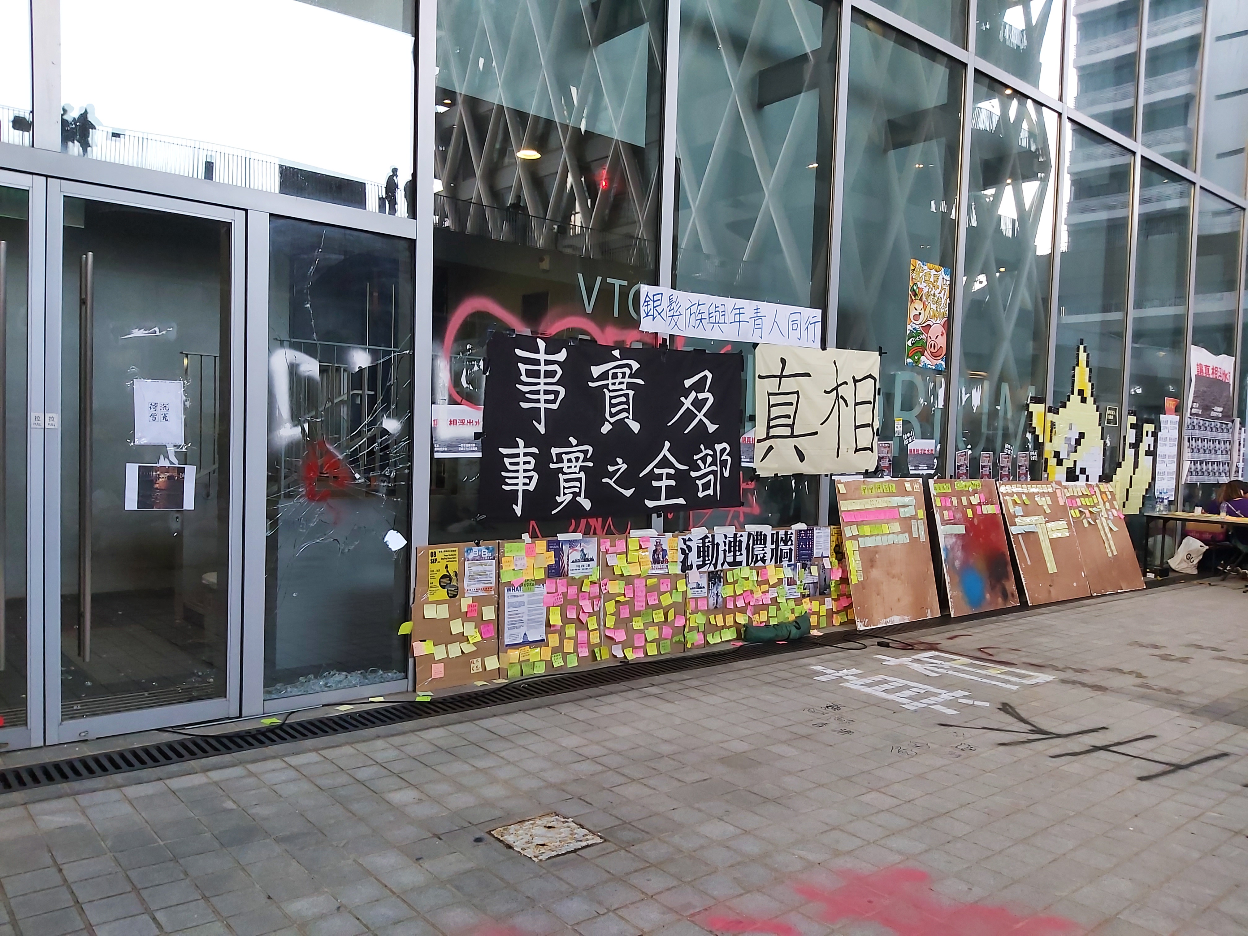 "Moveable Lennon Wall" which shows post-its demanding truth of the death of Chan Yin-lam, outside Vocational Training Council's institution Hong Kong Design Institute, in Tseung Kwan O, Hong Kong粵語: 香港將軍澳嘅香港知專設計學院分校，有學生放咗「流動連儂牆」喺校園範圍入面，希望搵到陳彥霖過身嘅真相。